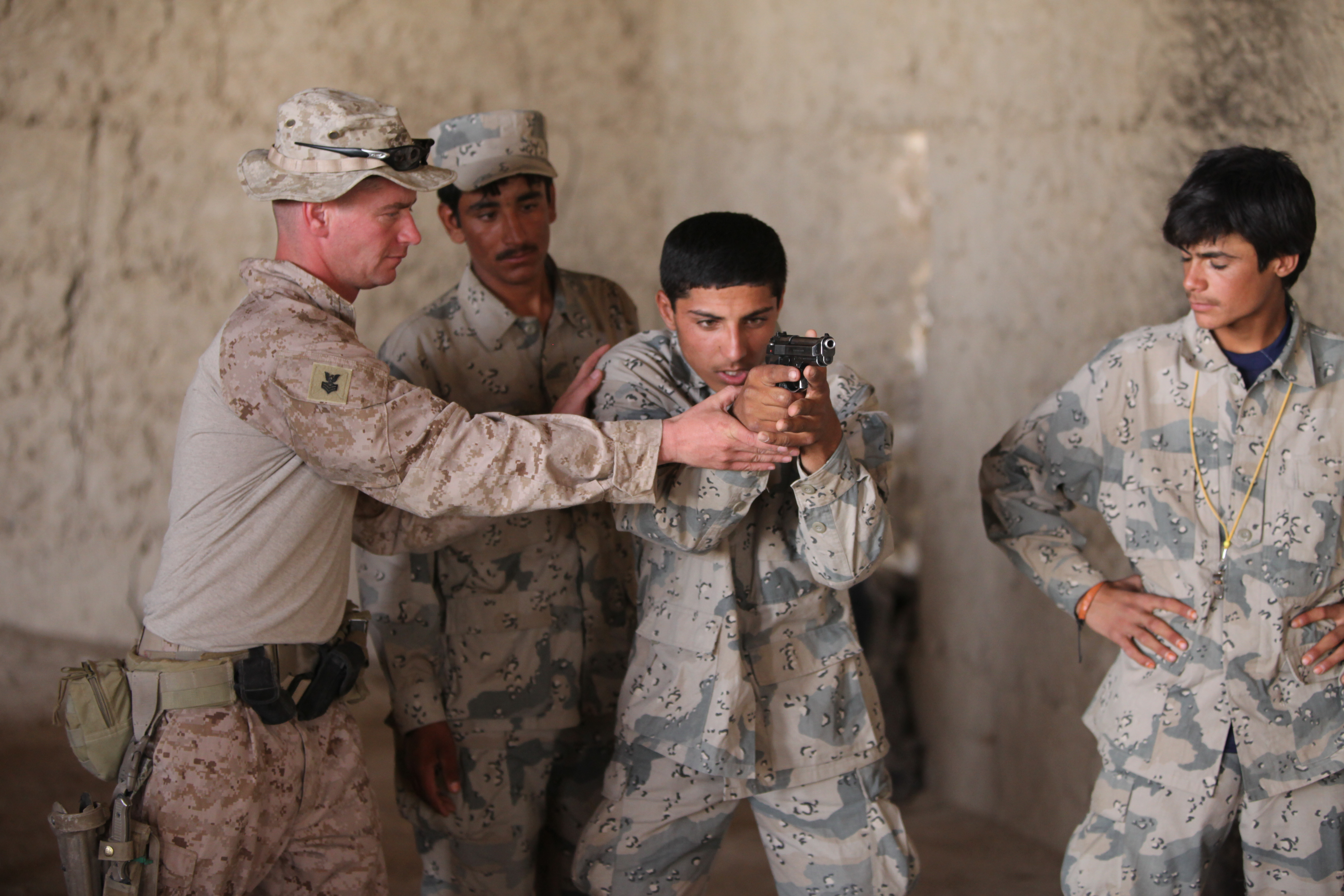 HELMAND PROVINCE, Afghanistan (May 15, 2010) Hospital Corpsman 1st Class Craig Gold, assigned to the Border Mentoring Team of 3rd Battalion, 1st Marine Regiment, Regimental Combat Team 7, instructs Afghan soldiers on proper weapons handling at the border patrol compound in Shamshad, Afghanistan. The team is working with the Afghan Border Patrol to build better training techniques. The 3rd Battalion, 1st Marine Regiment is deployed supporting the International Security Assistance Force. (U.S. Marine Corps photo by Lance Cpl. Brandyn E. Council/Released)